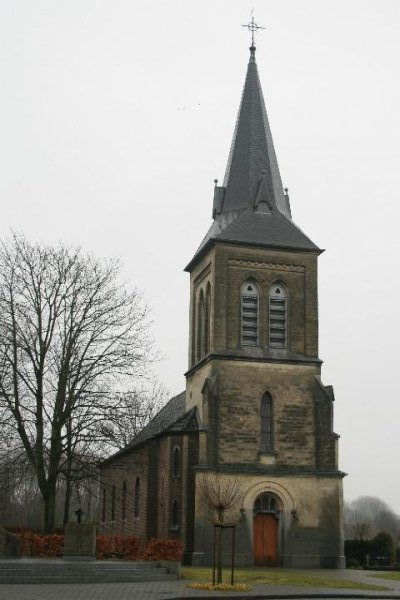 Cultural heritage monument No. 43 in Selfkant